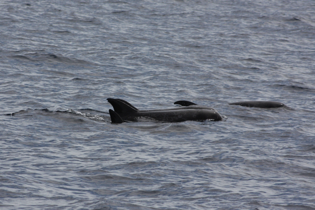 Found between Balicasag Island and Alona Beach, they only stayed on the surface for a minute or so before doing a deep dive. We waited around for 20 mins but we didn't see them again.